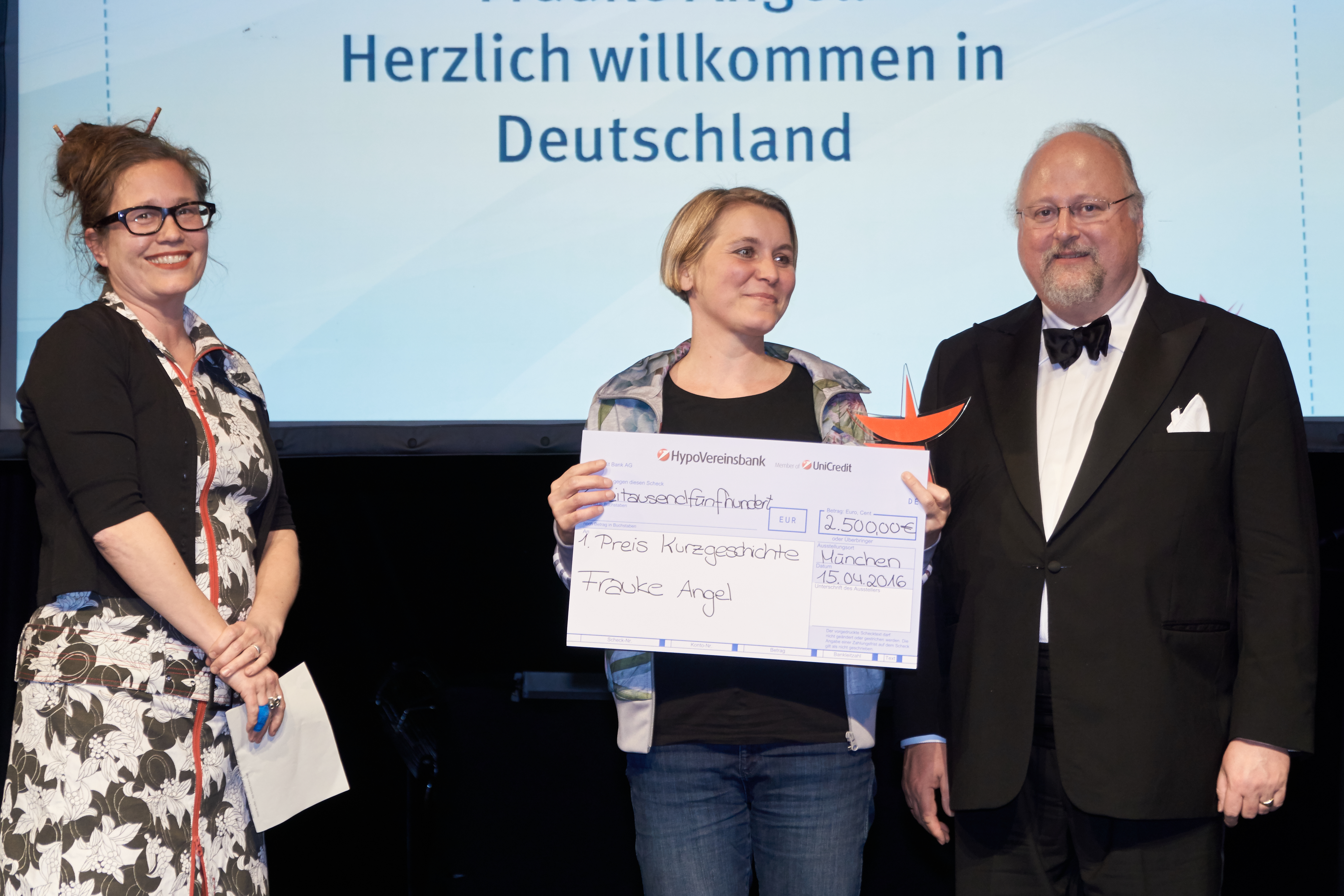 SpaceNet-Award 2016: (ltr) Jury Member Simone Veenstra, Winner (Text) Frauke Angel, Managing Director SpaceNet AG Sebastian von Bomhard, Photo: Ina Matthes (2016)